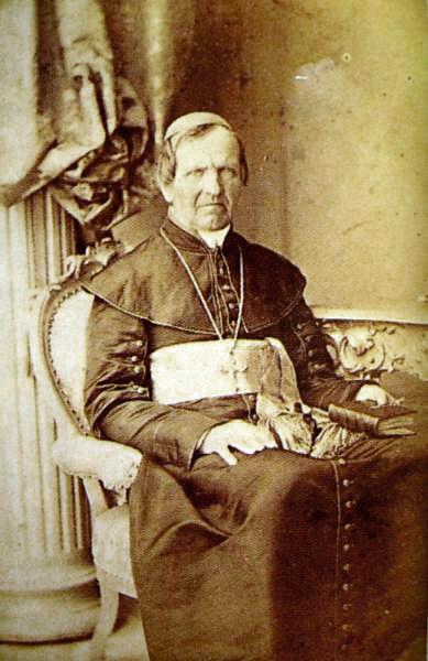 The only photography of bishop Anton Martin Slomšek, pictured in Vienna